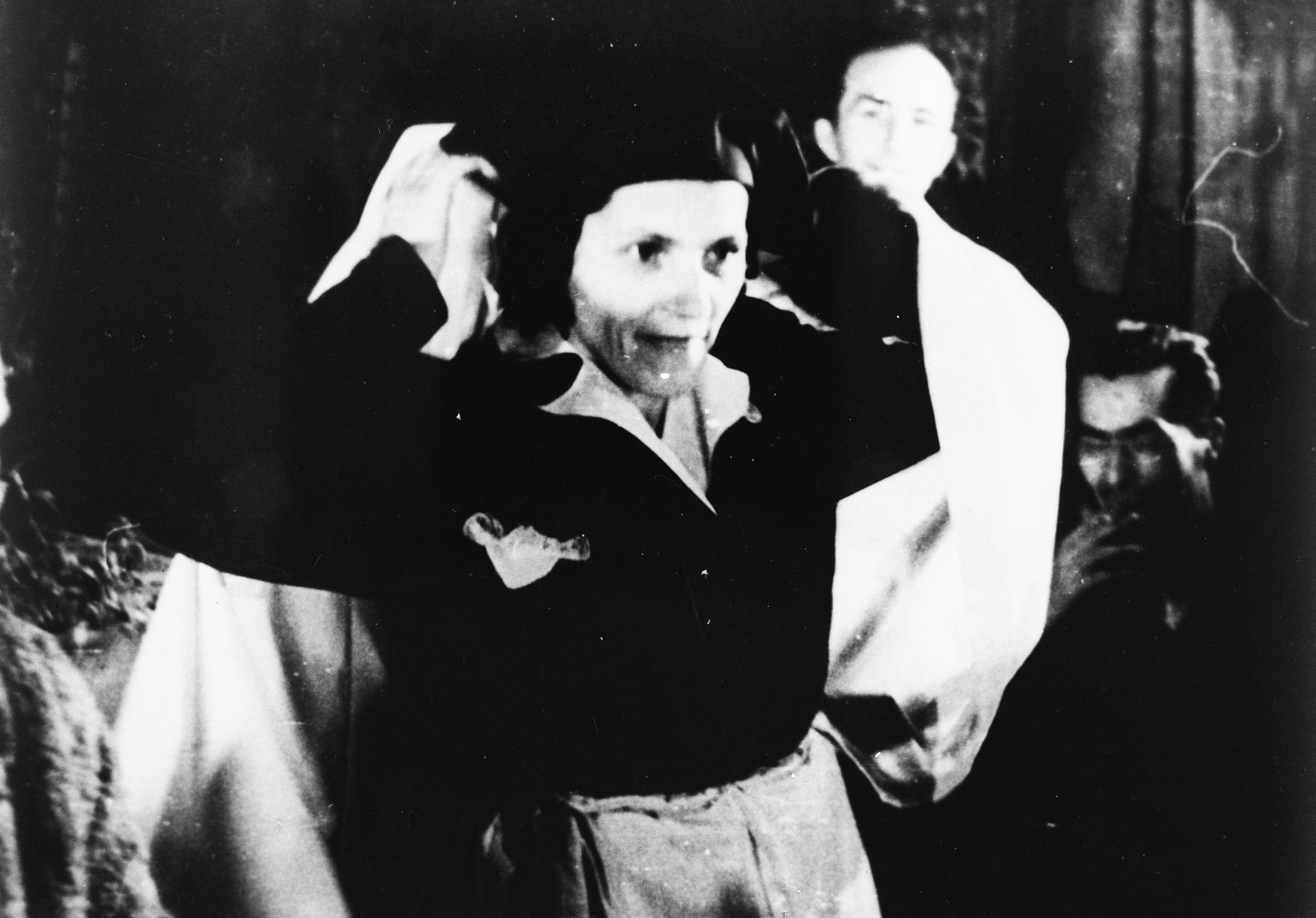 Taking off the veil by the Muslim members of the Women's Antifascist Front of Bosnia and Herzegovina at a congress in Sarajevo, 1947